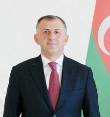 Ilham Aliyev received credentials of incoming Ambassador of Georgia